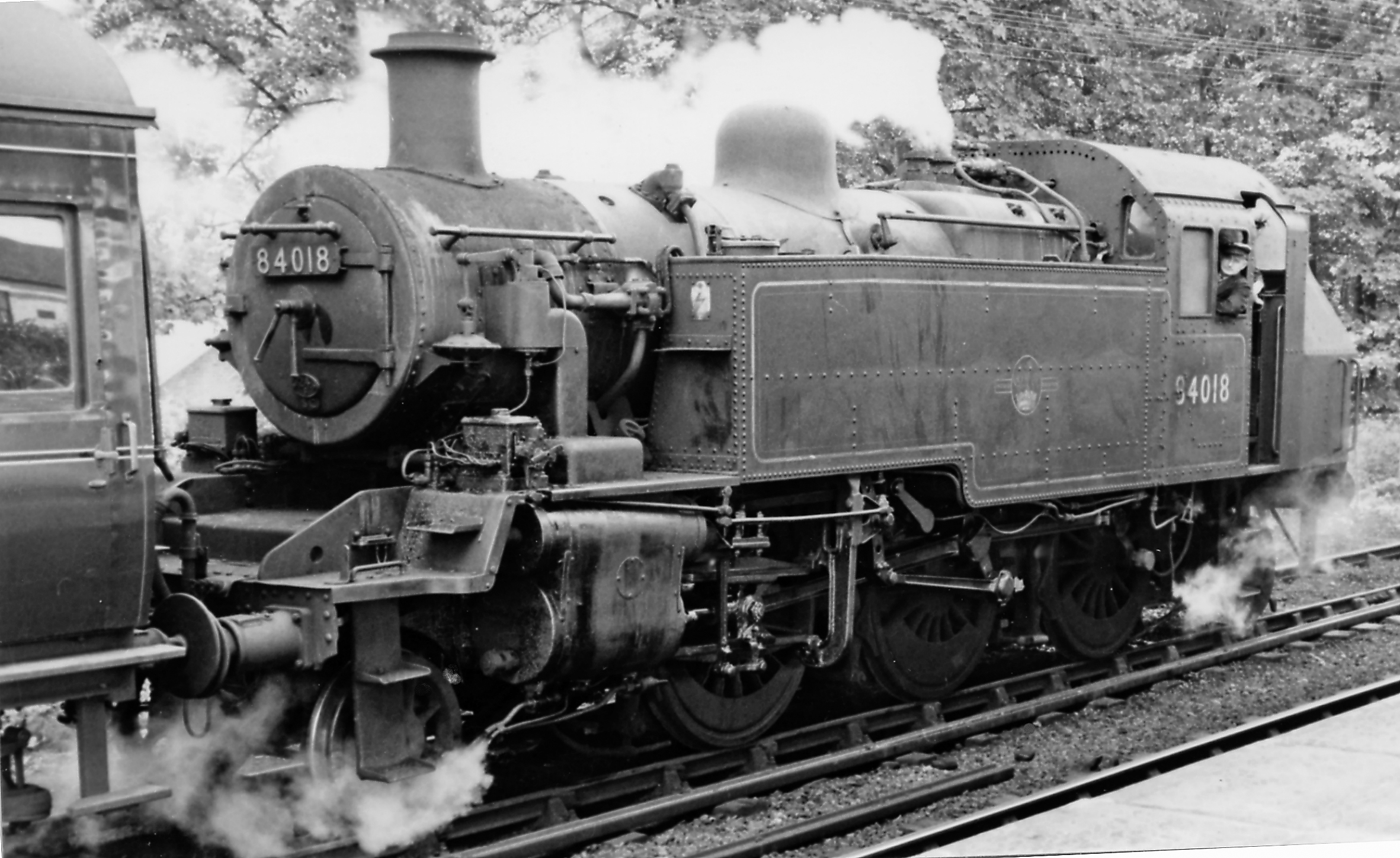 BR Standard 2MT 2-6-2T at Kirkham & Wesham. Just arrived on a local from Fleetwood is No. 84018 (built 11/53, withdrawn 4/65).